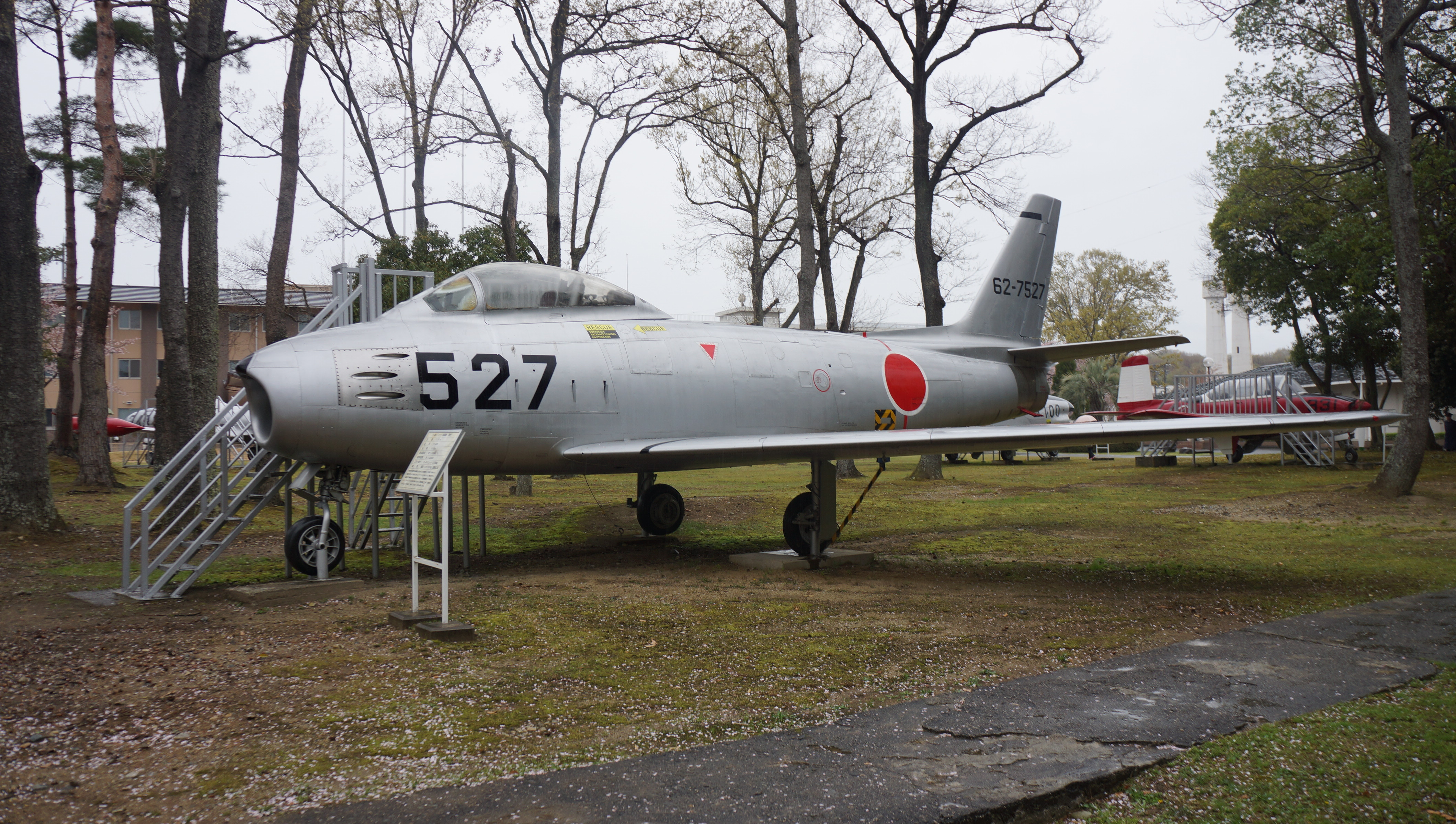 Japan Air Self-Defense Force F-86F fighter. April 6, 13 at the Japan Air Self-Defense Force Nara base.